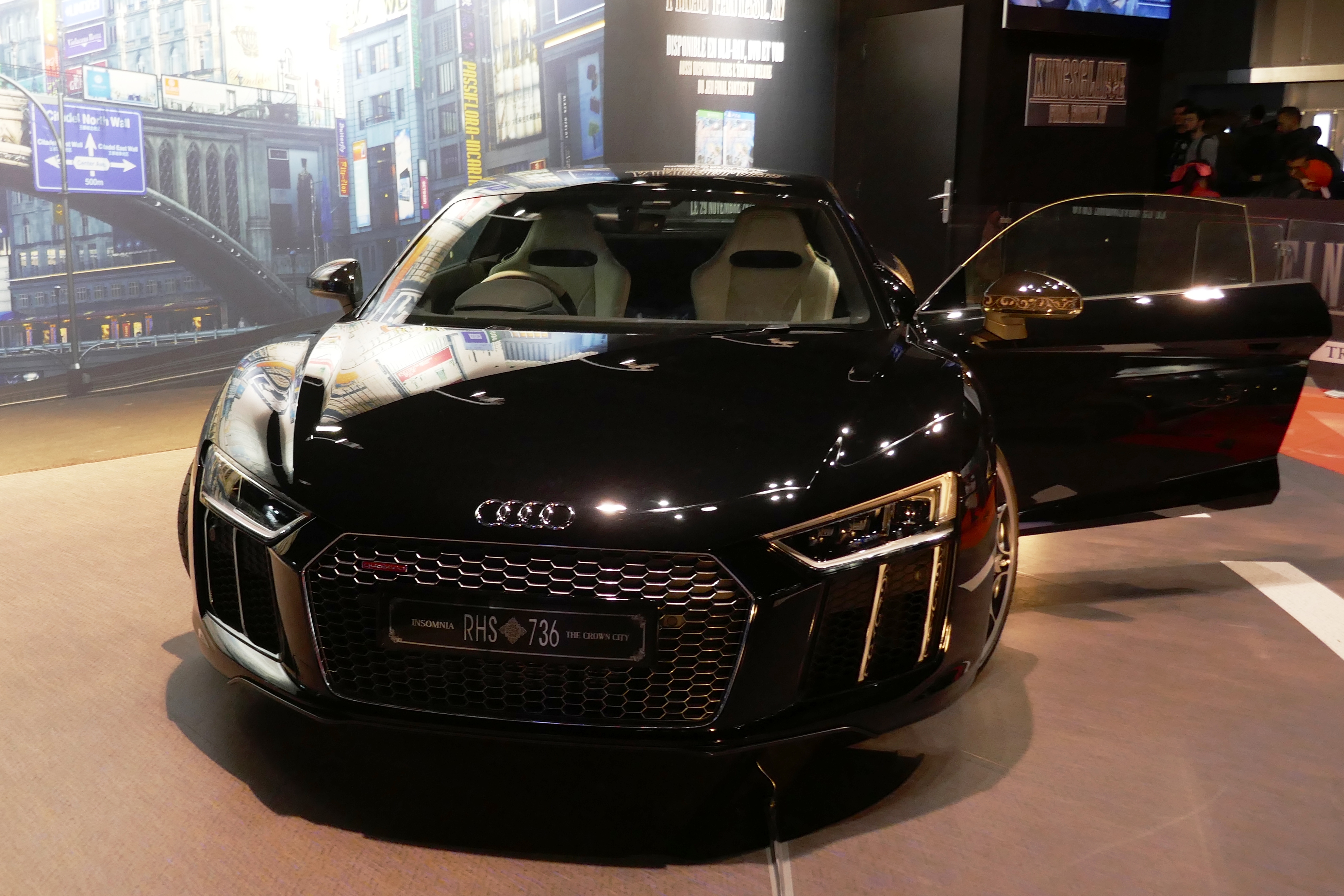 Audi R8 - Final Fantasy XV: Kingsglaive - Paris Games Week 2016